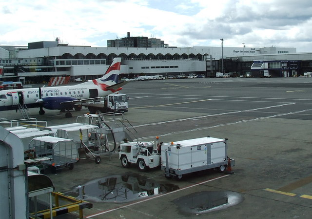 Airside at Glasgow The original terminal building by Sir Basil Spence in 1966 with its famous barrel vaulted roof can be seen to the left. This is the domestic side of the airport, the international side is to the right.